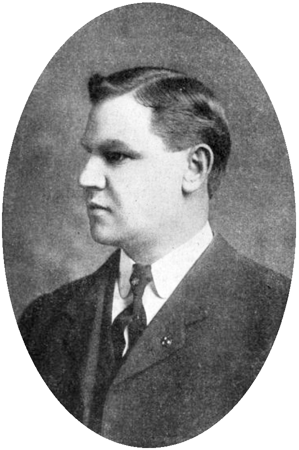 Photo of Big Bill Haywood